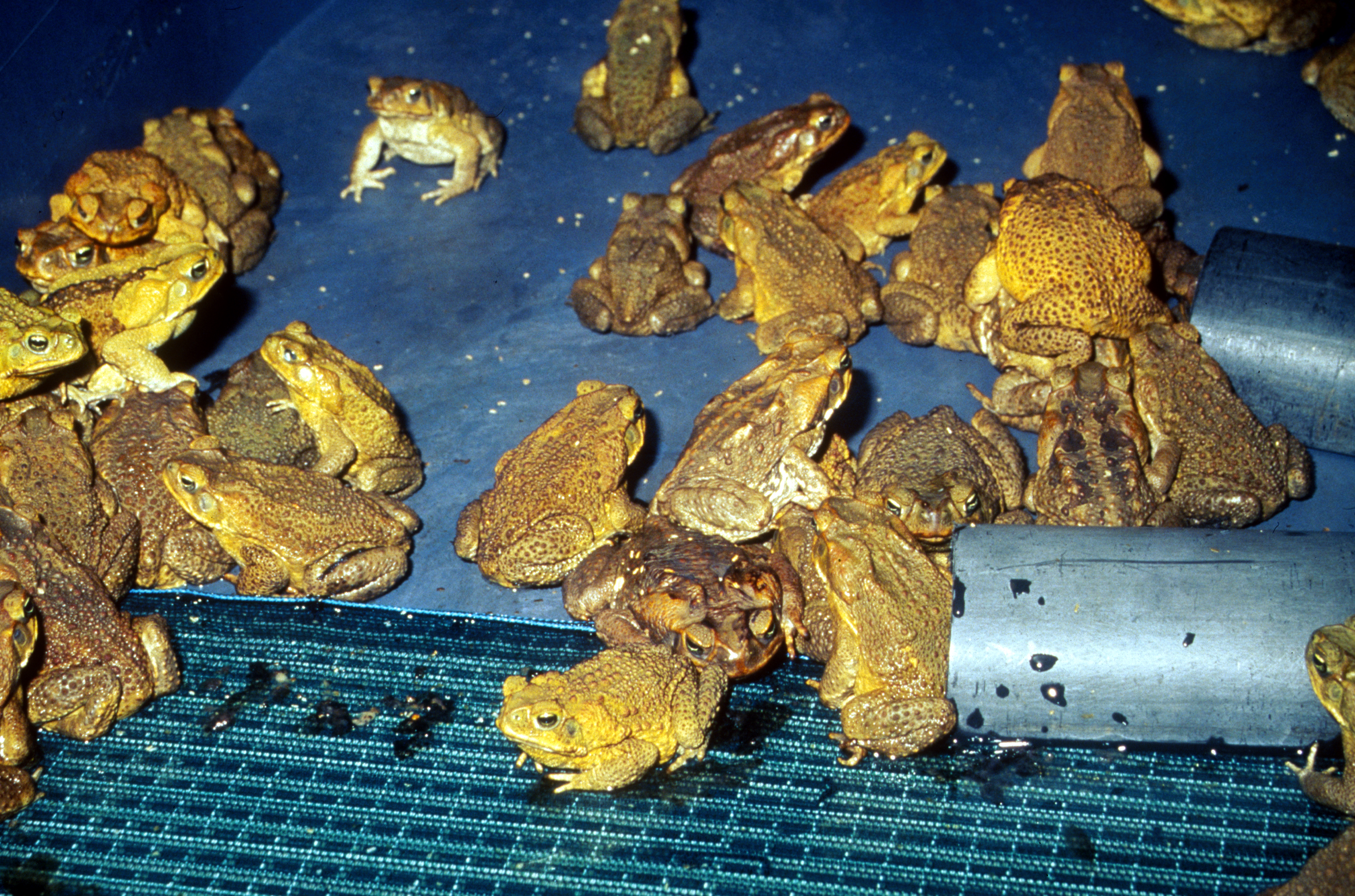 CSIRO researchers are working on a research initiative aimed at stopping the hop of cane toads (Bufo marinus) across Australia. With the toad creeping west and southward, scientists are fighting back with cutting edge genetic technology. For more information visit